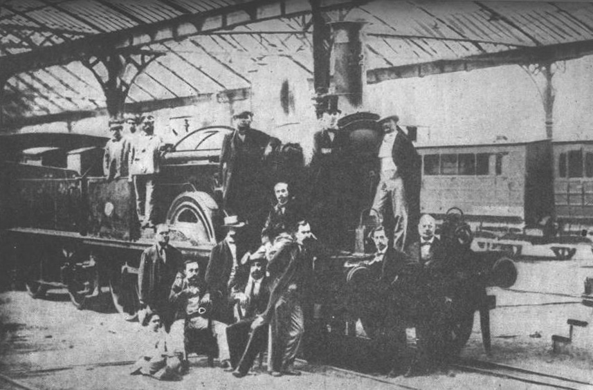 The constructors of first train of catalonia